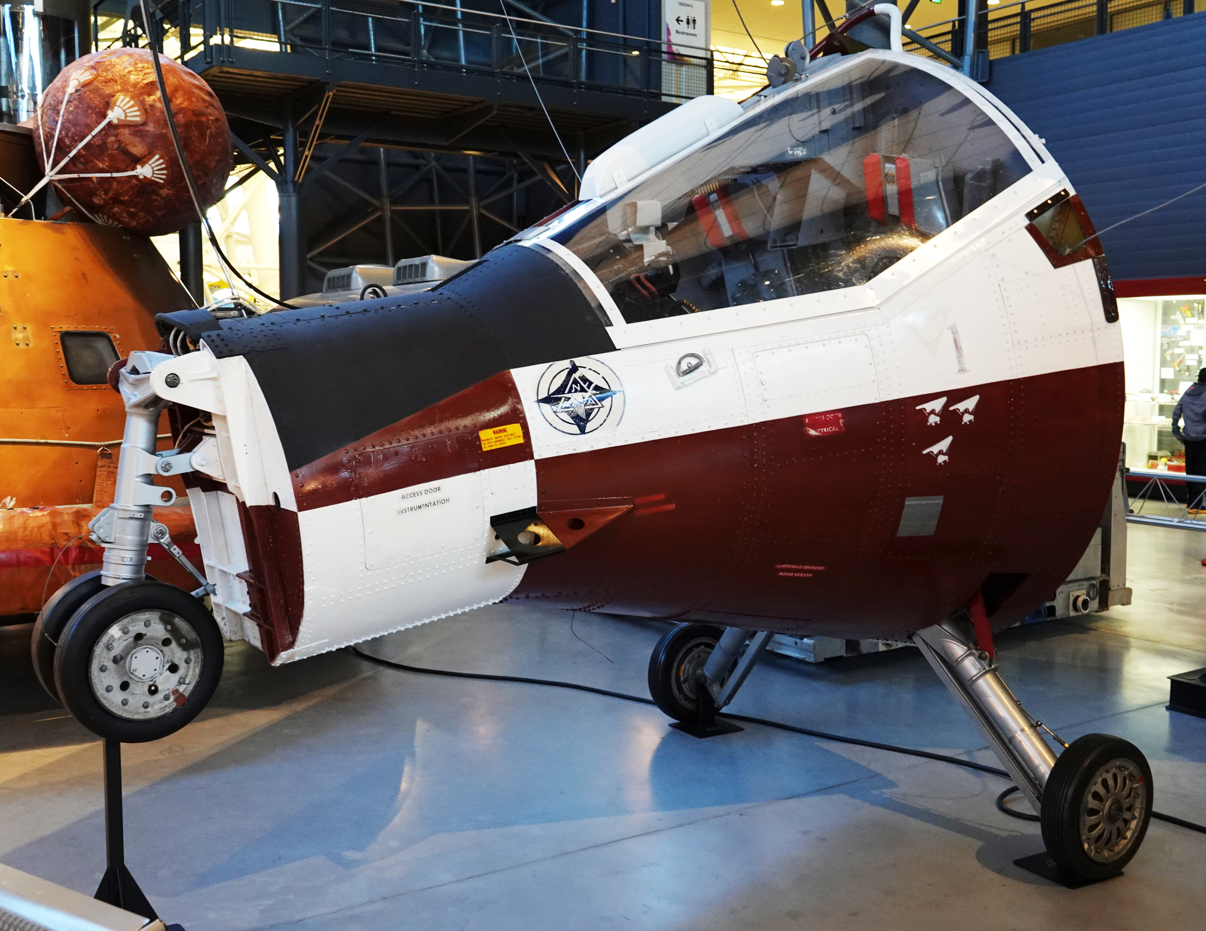 At the start of the Gemini program in 1961, NASA considered having the two-man Gemini capsule land on a runway after its return from space, rather than parachute into the ocean. This controlled descent and landing was to be accomplished by deploying an inflatable paraglider wing of the type invented by Francis Rogallo and NASA's Langley Research Center. Although never used to recover a manned spacecraft, the Paraglider Landing System Program proved useful in developing alternate landing techniques. This full-scale, manned Test Tow Vehicle (TTV) was built to train Gemini astronauts for flight. It served as the first of two TTVs flown to perfect maneuvering, control, and landing techniques. Eight times a helicopter released the TTV, wings deployed, over the dry lake bed at Edwards Air Force Base, where it landed. Transferred from NASA to the Museum in 1975. Picture taken at the National Air and Space Museum's Steven F. Udvar-Hazy Center in Chantilly, Virginia, USA.